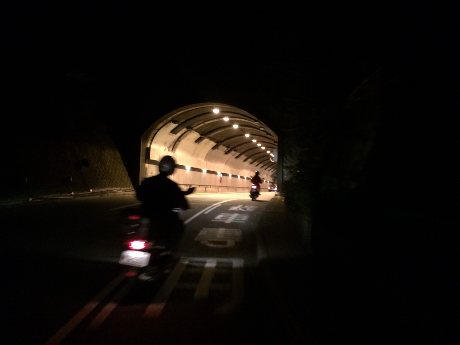 Ziqiang Tunnel (自強隧道), driving from Beian Road (北安路) to Ziqiang Bridge (自強橋) on 31 October 2017 (Picture 1).